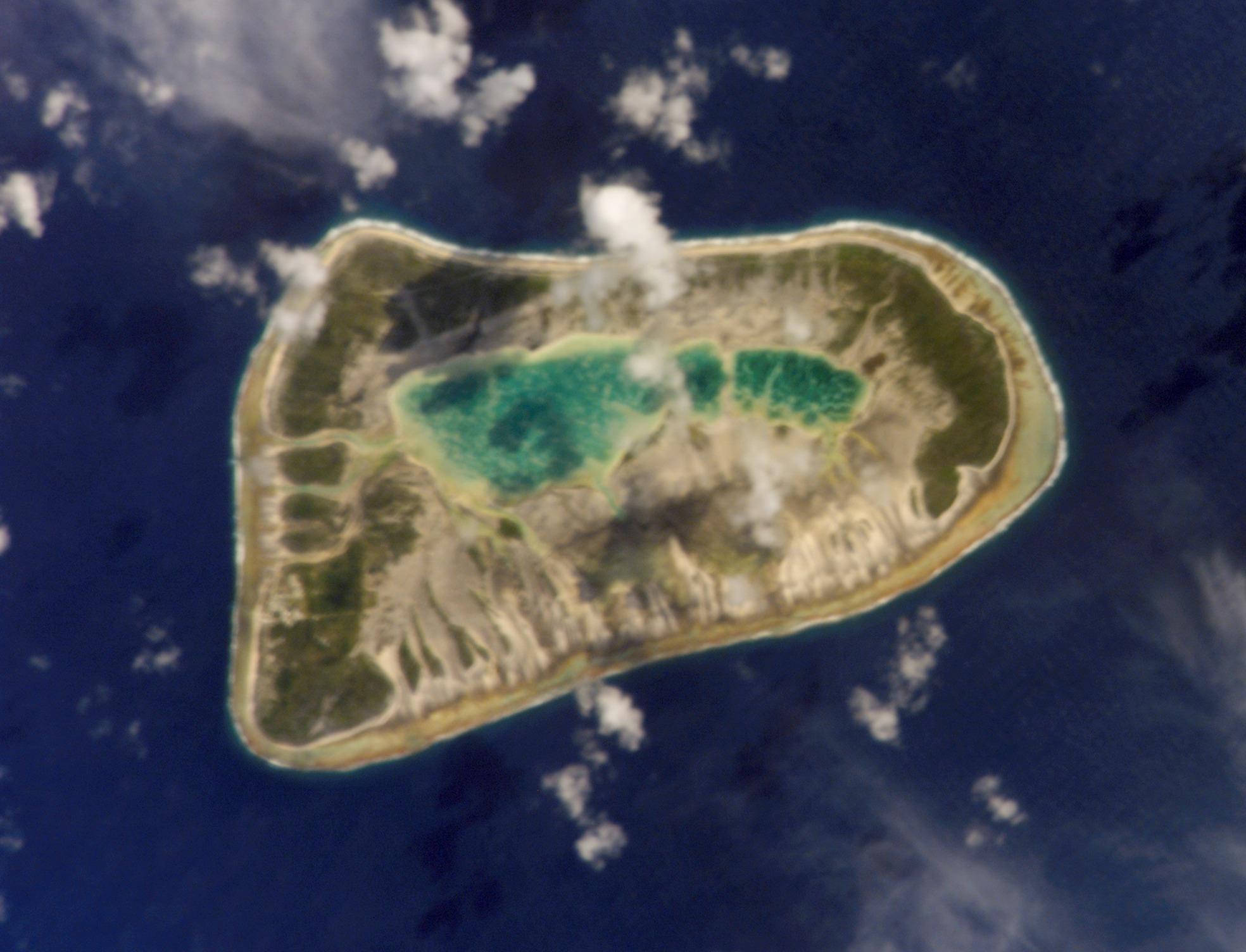 NASA astronaut image of Puka Puka Atoll (Tuamotu Archipelago, French Polynesia) in the Pacific Ocean